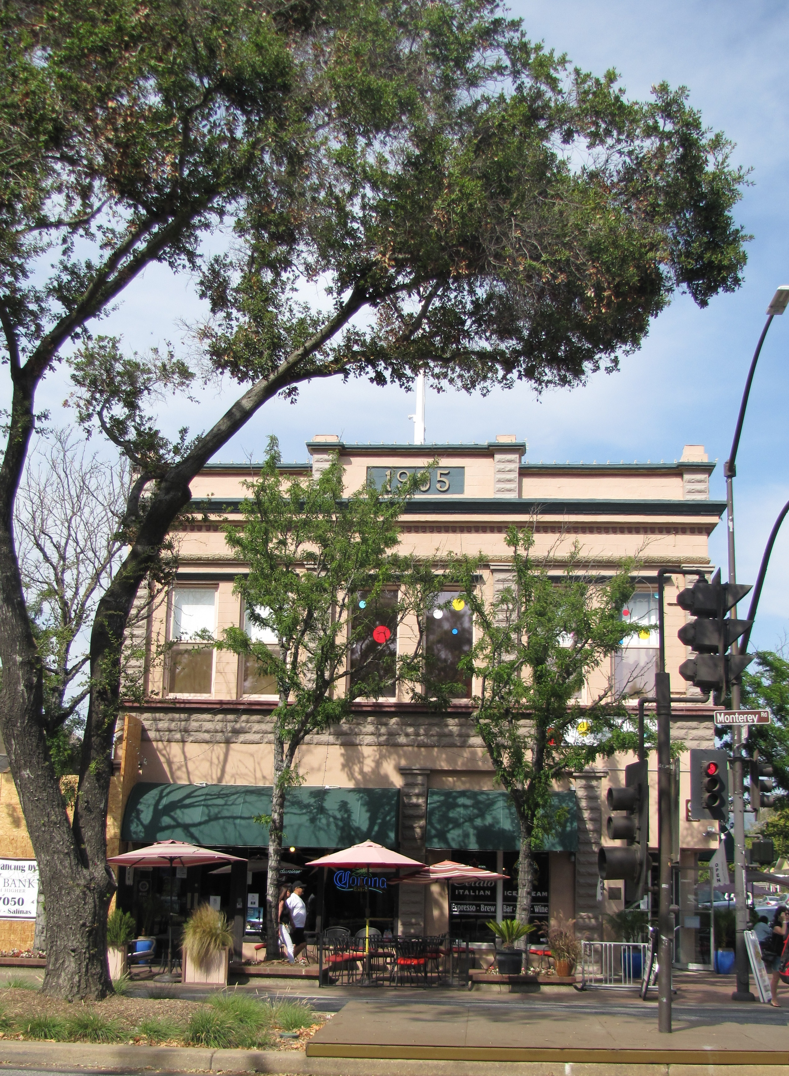 Morgan Hill's historic Votaw Building, erected in 1905.